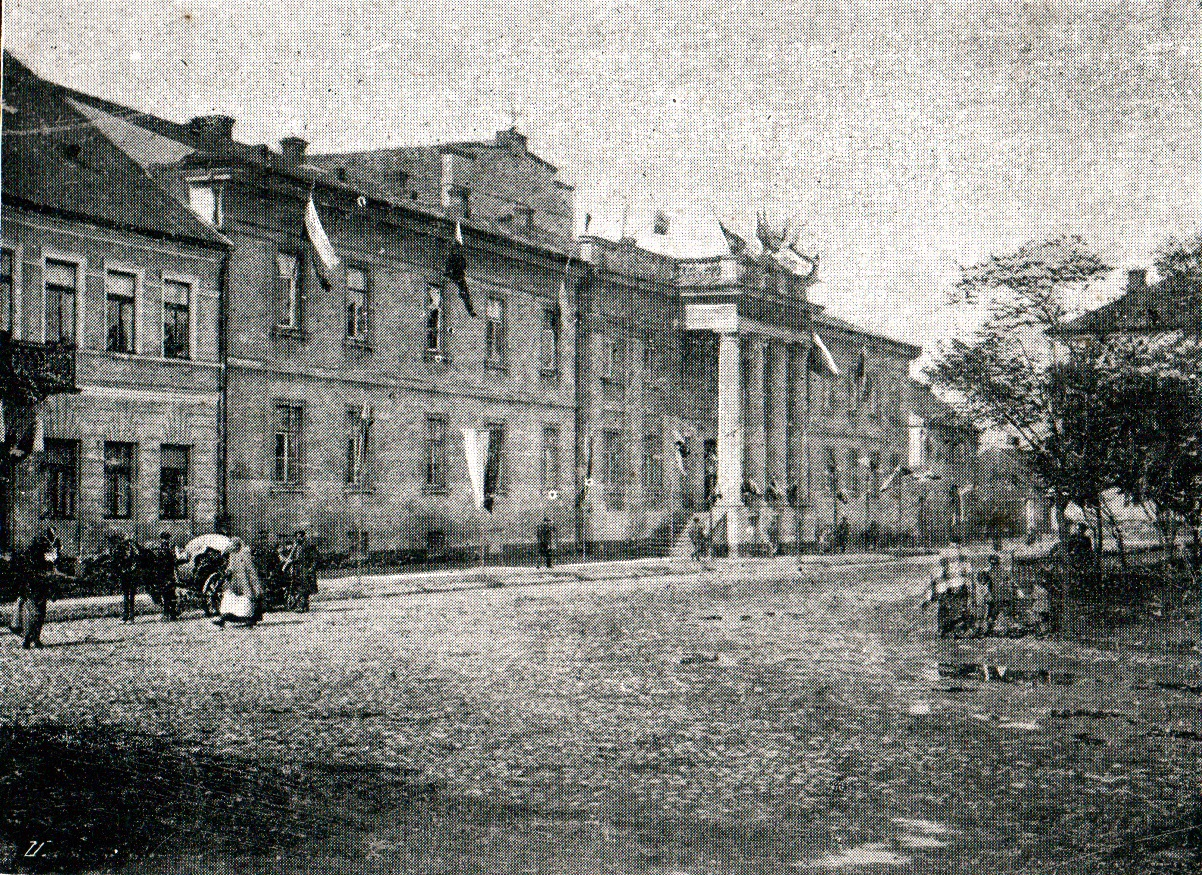 Male Gymnasium in Radom, 1899